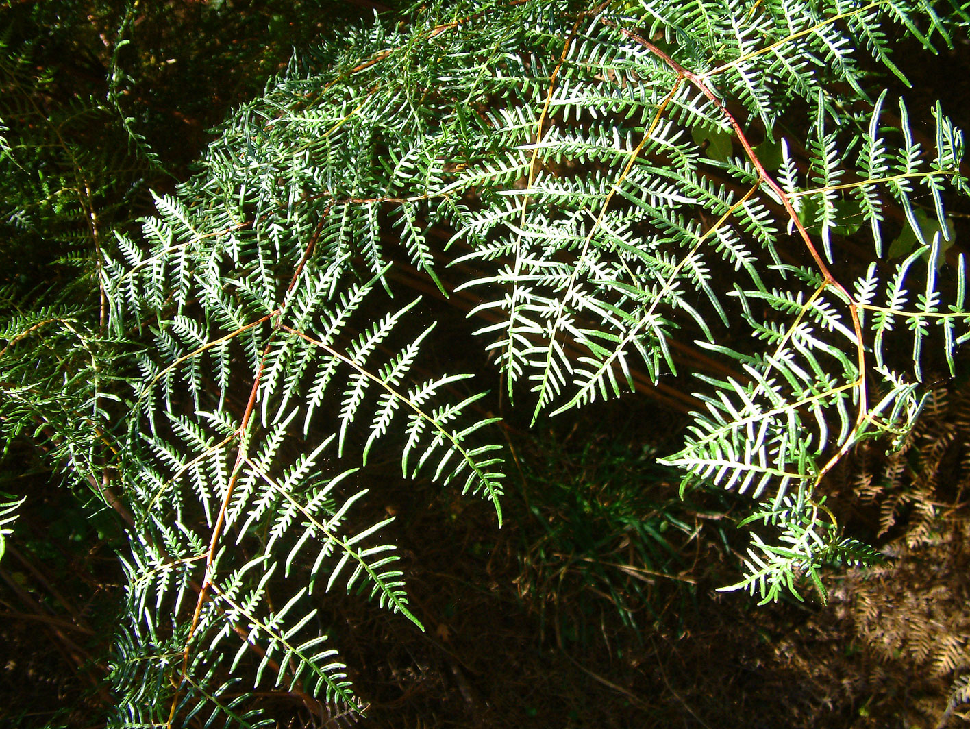 Photo of bracken (Pteridium esculentum)